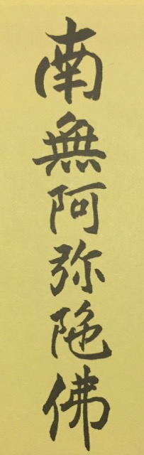 A reprint of the nembutsu (nianfo) composed by Honen, founder of Pure Land Buddhism in Japan. Printed in a Jodo Shu liturgy book.